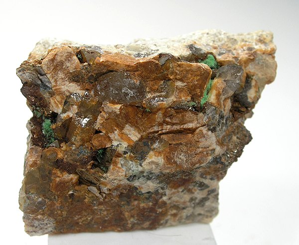 Ulrichite Locality: Lake Boga granite quarry, Lake Boga, Victoria, Australia (Locality at ) This extremely rich specimen for the species was found in the type occurrence by the discoverer, Australian mineral collector and gold dealer Anthony Fraser. It is from the type pocket, and was found with the type specimens, and resided in Fraser's collection until recently when he parted with it. It is one of the richest known examples of the species, as it contains 3 separate vugs of protected crystals in granitic matrix. When I got the piece, it was emphasized to me how rare it is. 5.3 x 4.4 x 3.8 cm